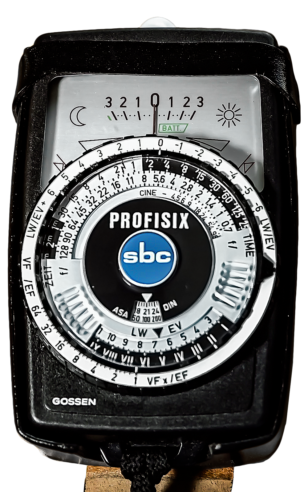 Gossen Profisix Light meter front